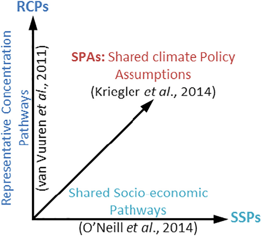 Fig. 1. "Simplified schematic of the latest global RCP–SSP–SPA scenario framework of the IPCC AR5". The article is: "Applying the global RCP–SSP–SPA scenario framework at sub-national scale: A multi-scale and participatory scenario approach". In: Science of The Total Environment, Volume 635, 1 September 2018, Pages 659-672